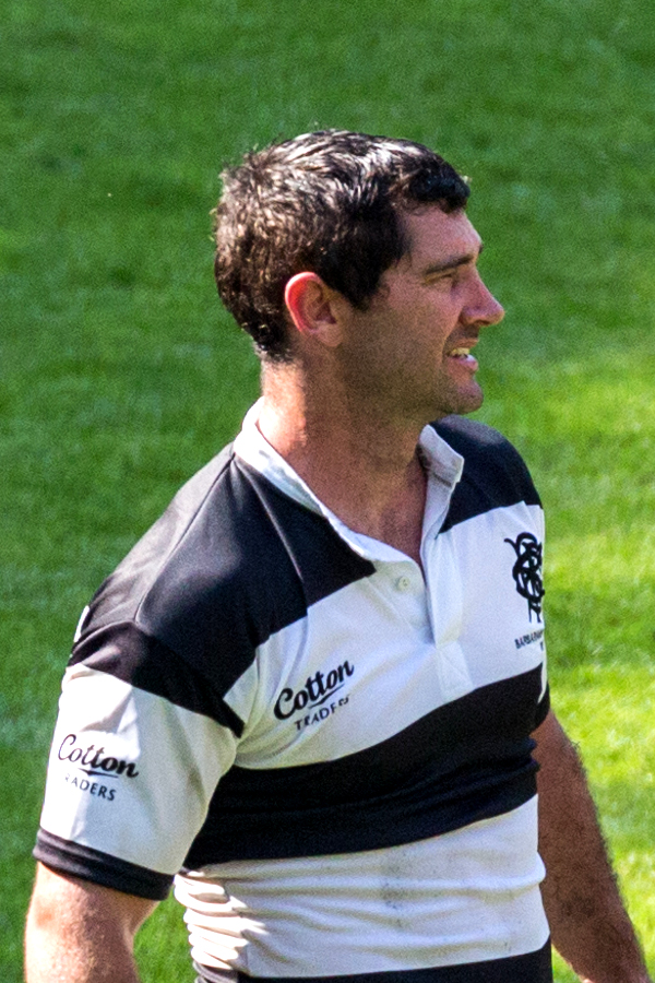 The New Zealand rugby union player Stephen Donald playing for the Barbarians at Twickenham against the England XV